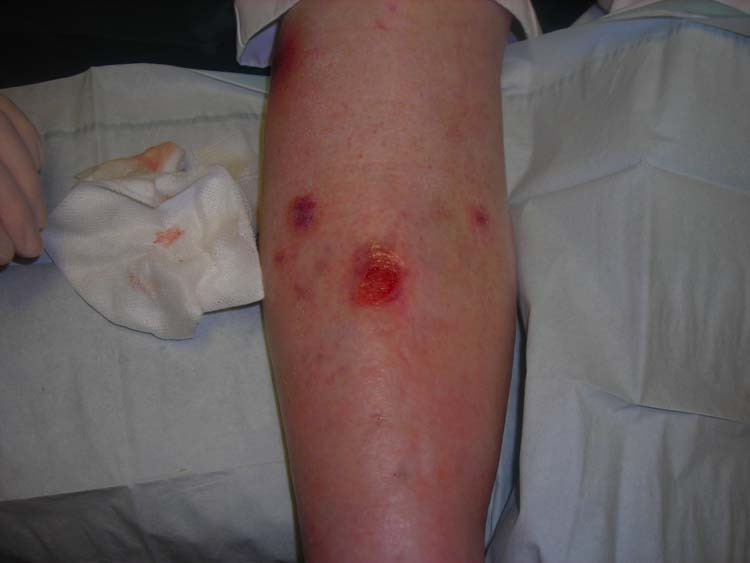 A 63-year-old female with diabetes and rheumatoid arthritis presented with a chronic venous ulceration (2 cm X 2.6 cm) to the dorsal aspect of the right leg. The wound had been present for over two months despite application of compression therapy and topical agents.